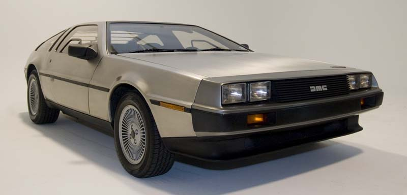 Delorean DMC-12 with doors closed Photographed by Kevin Abato